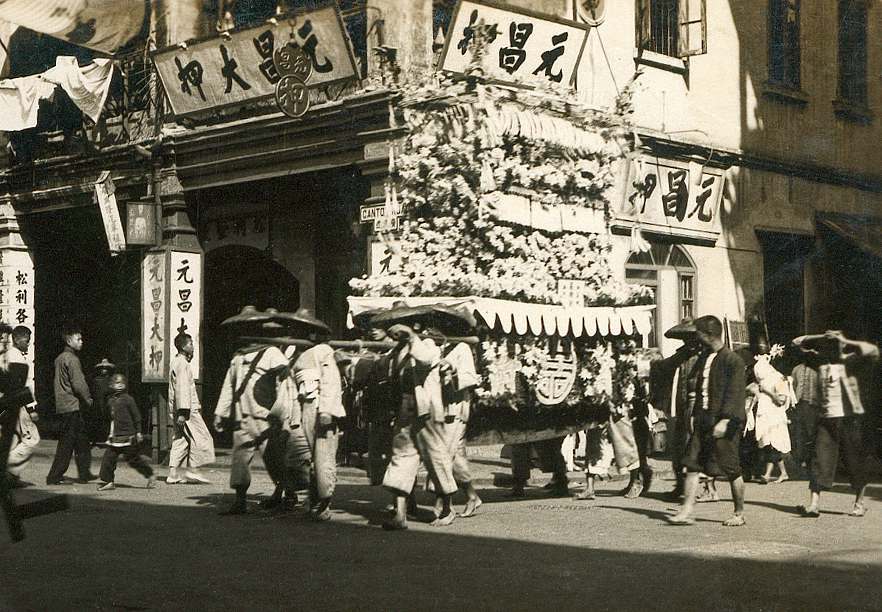 Hong Kong in the 1930s Canton Road (street name sign on building)